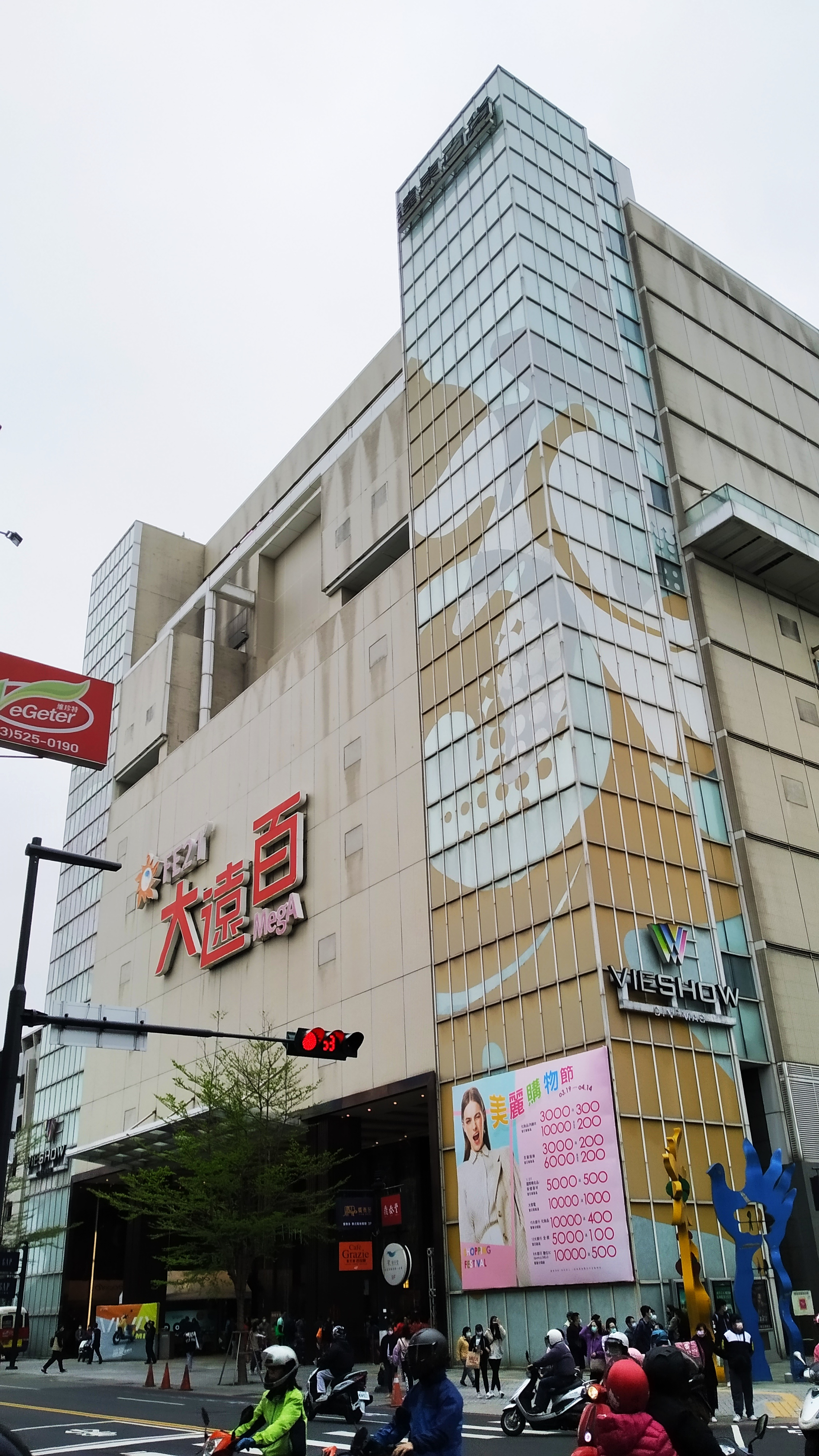 新竹大遠百外觀照